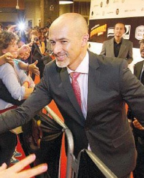 Peruvian actor Carlos Alcántara at the premiere of the film "Asu Mare", starring by him. On April 10, 2013, Cinemark de Jockey Plaza.